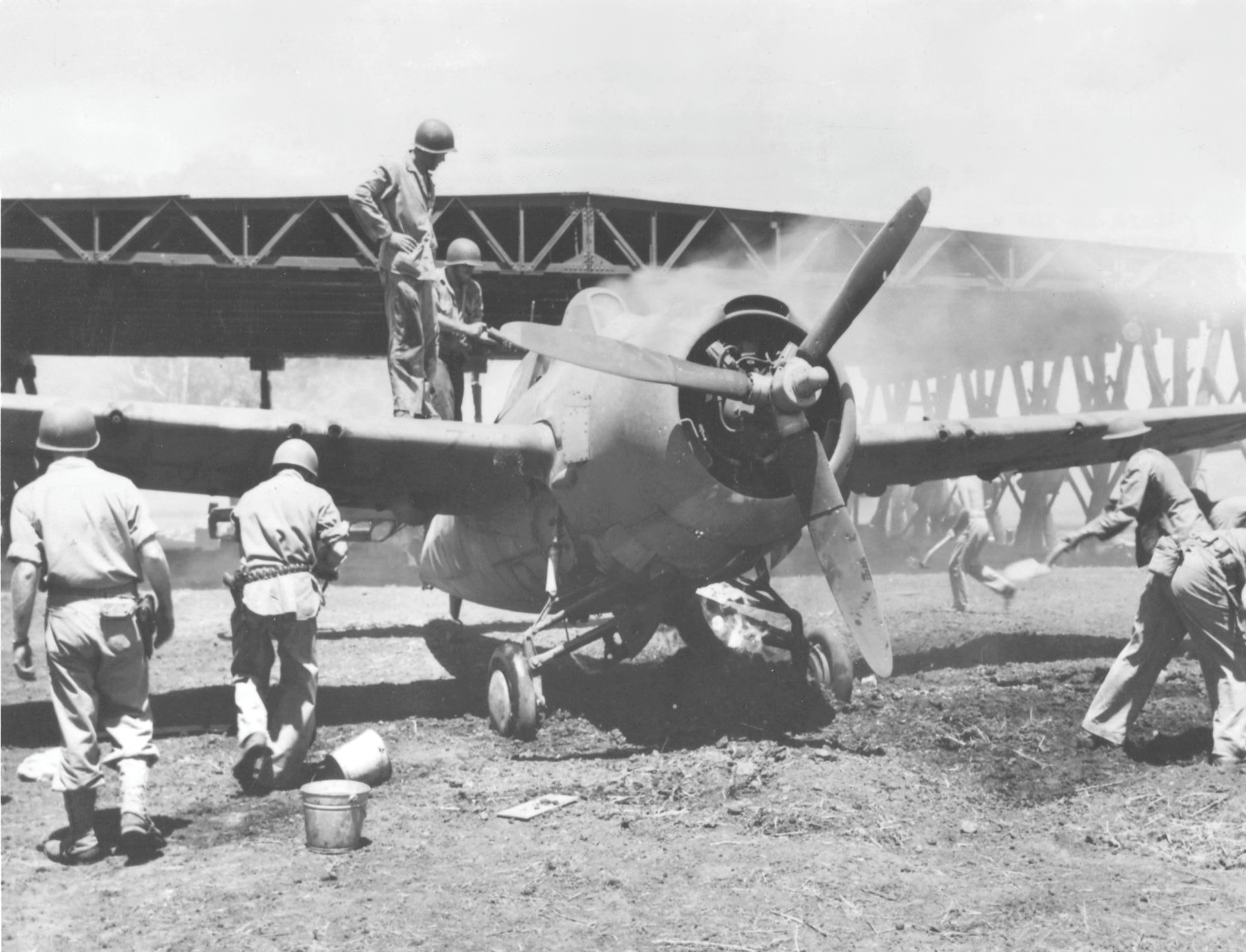 A U.S. Marine Corps Grumman F4F-4 Wildcat from Marine air Group 23 is being saved by bucket-brigade methods. Note bullet-pierced propeller blades. The aircraft was damaged during Japanese attack on Henderson Field, Guadalcanal, in October 1942.